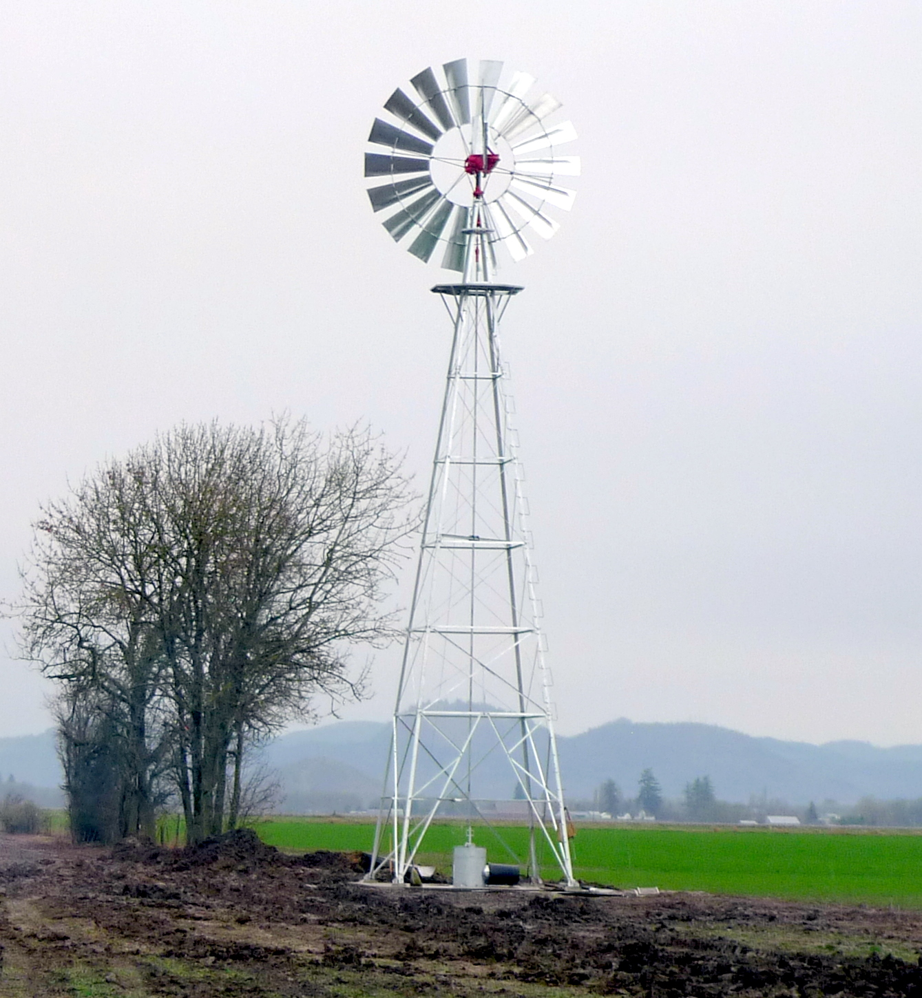 Wind powered pump on Oak Park Farm, Shedd, Oregon. This wind pump is used to remove water from tile line agricultural drainage system on flooded farm land. This pump is used to drain excess water from farm land to improve agricultural production. It operates a 28 inch diameter piston pump with a 16 inch stroke. It pumps 360 gallons per minute on an average windy day. This is the first large wind-powered agricultural pump in the U.S. and is a good example of modern technology being applied to an old, well-proven technology.